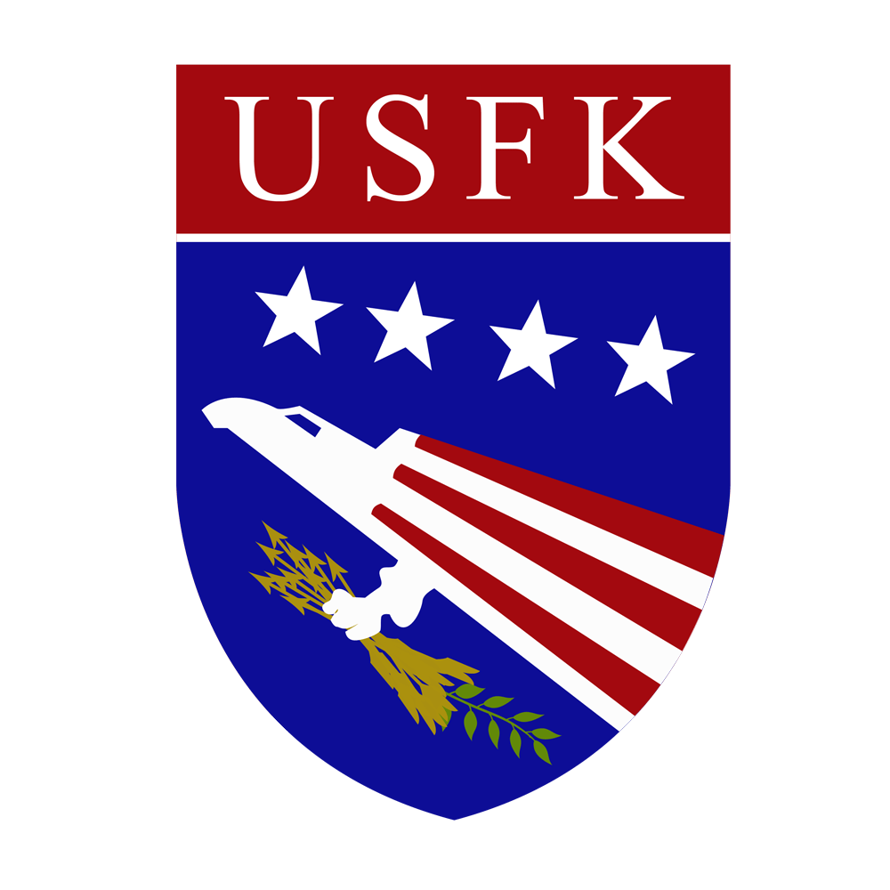 United States Forces Korea emblem from [1] approved by the Commander, U.S. Forces, Korea on 6 May 1993.